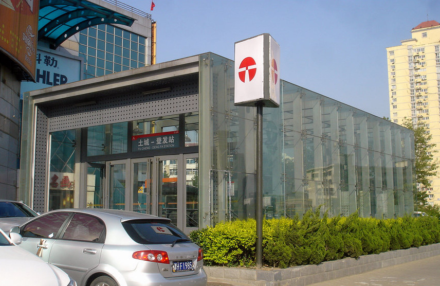 Tuicheng St. (Line 1)